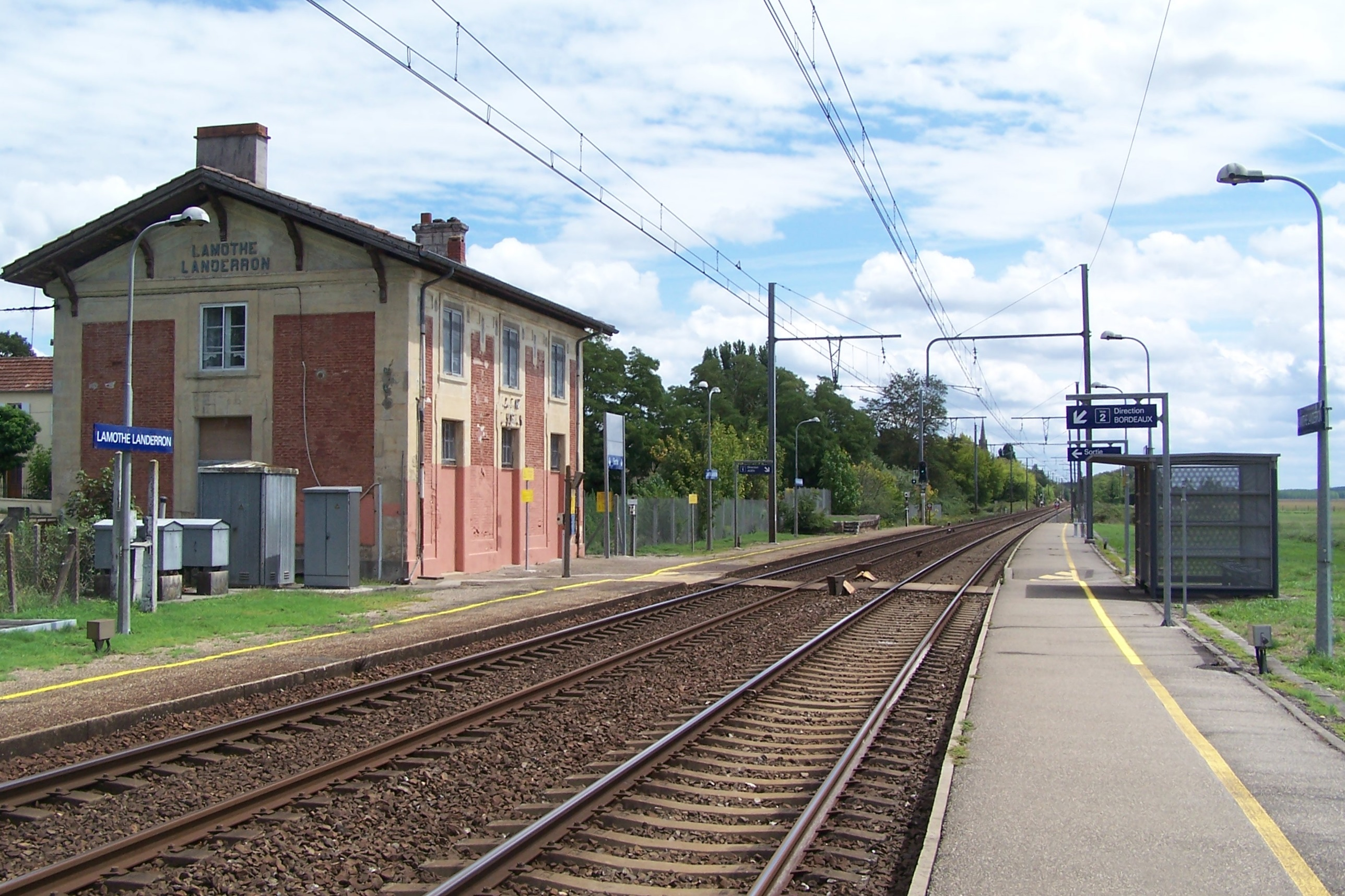 Train station of Lamothe-Landerron (Gironde, France)